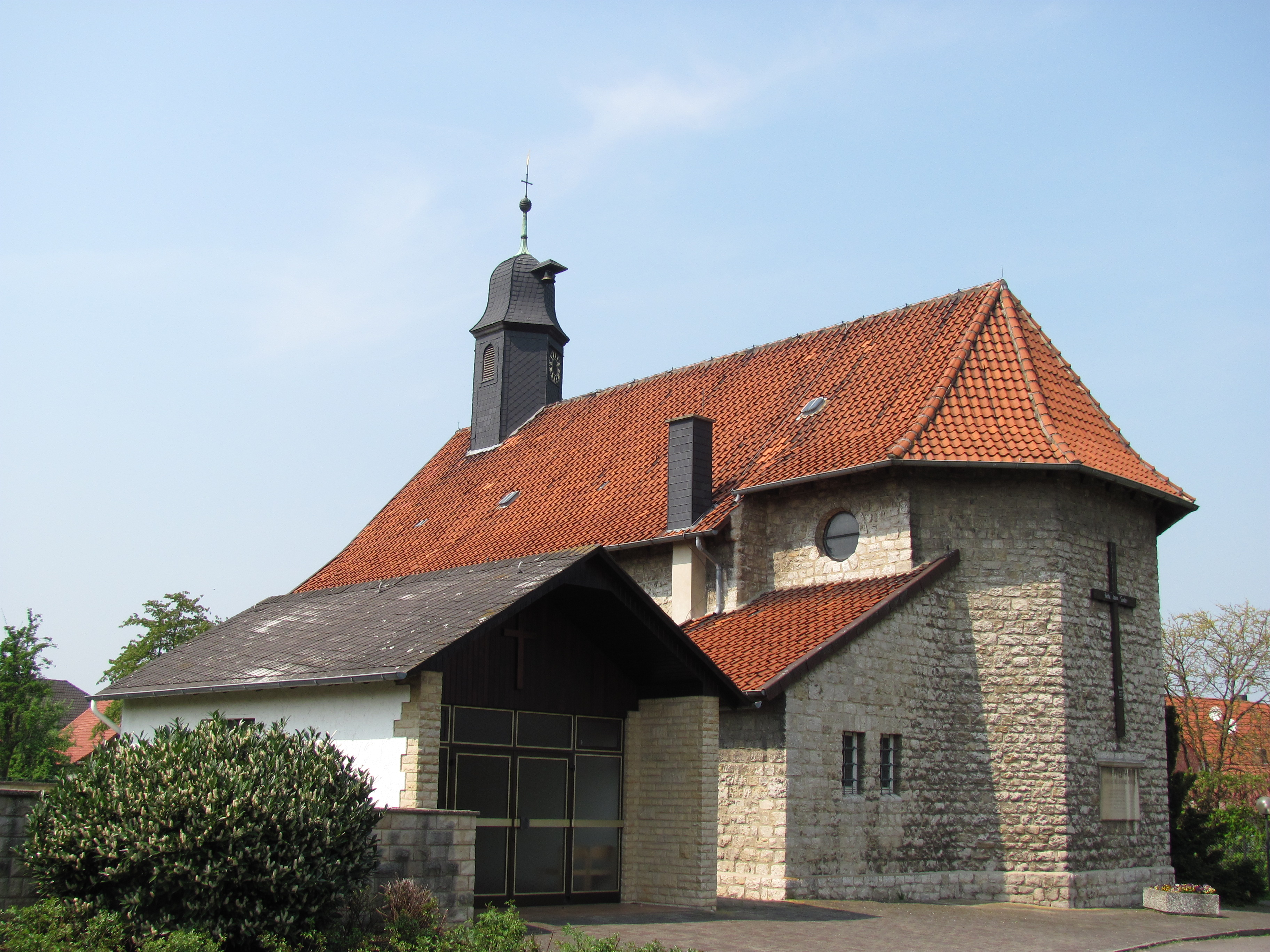 Catholic Church, Schellerten-Farmsen, Lower Saxony, Germany